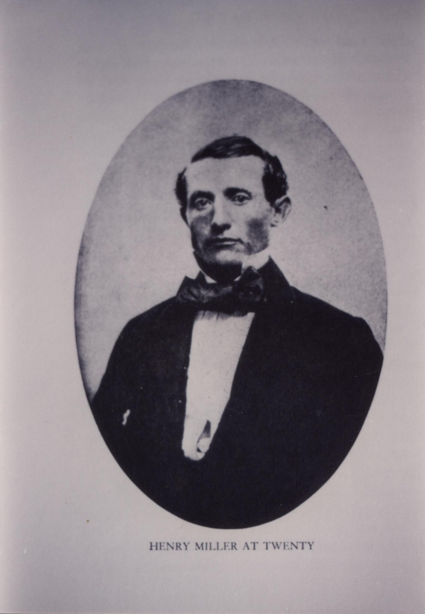 Henry Miller about 1847. Probably taken in New York City.